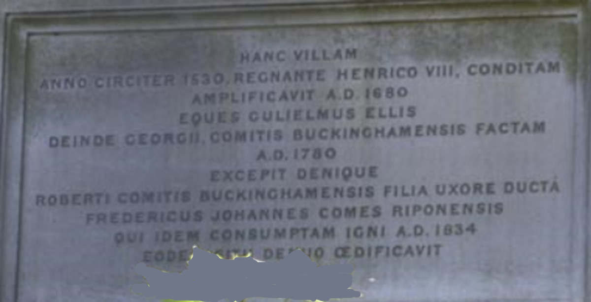 Plaque at Nocton Hall placed in 1841 near the front door